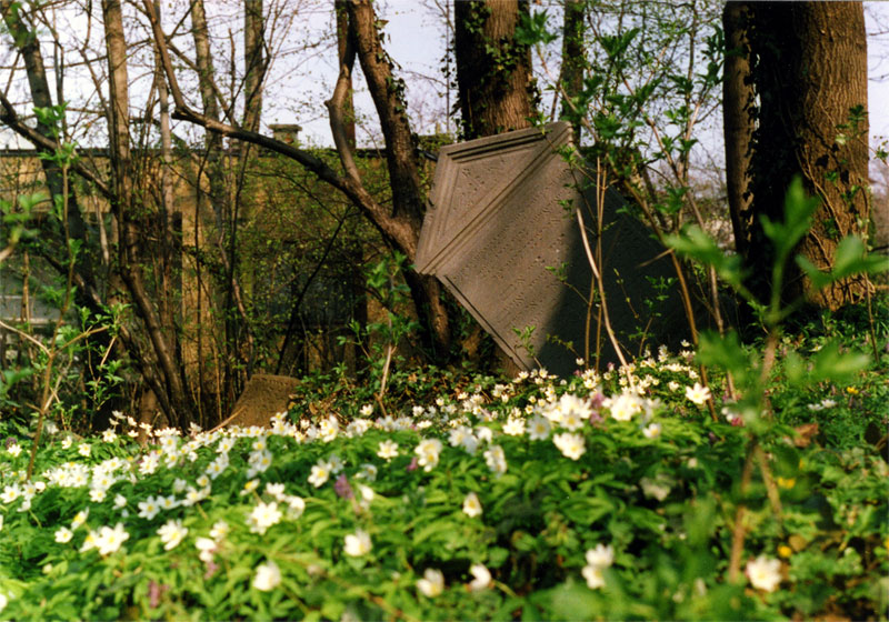 Old Jewish Cemetery in Cieszyn